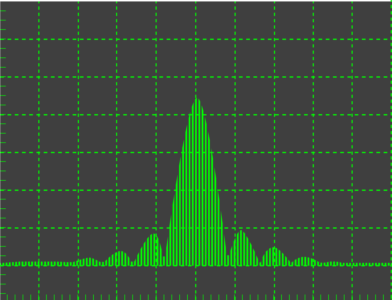 This is the spectrum of a typical radar signal with a trapezoid pulse profile. It shows the Coarse Spectrum, eg the full bandwidth of the spectrum may be seen as a series of lobes (after TJC - English WP).